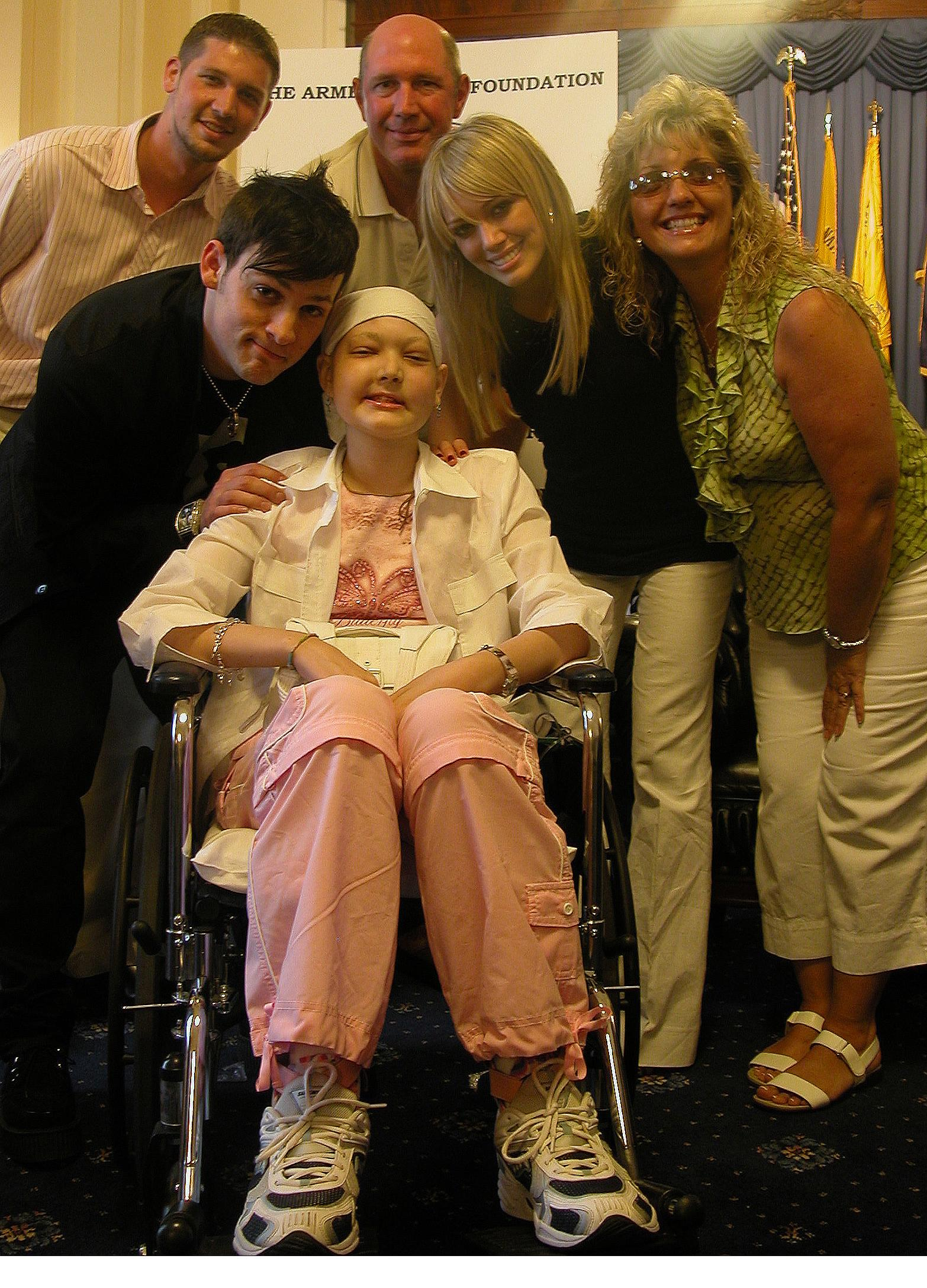 Singer Joel Madden (bottom left), actress Hilary Duff (second from right) and twelve-year old Alyssa Weishoff (centre) and family — brother, Adam (top left); father, Fred (top centre); mother, Lisa (right) — at Capitol Hill for the launch of National Military Families Week on June 10, 2005.